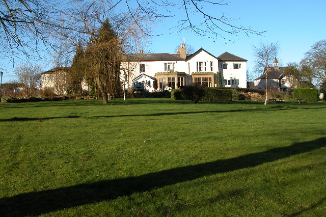 The Northop Hall Hotel. Hotel in the village of Northop.